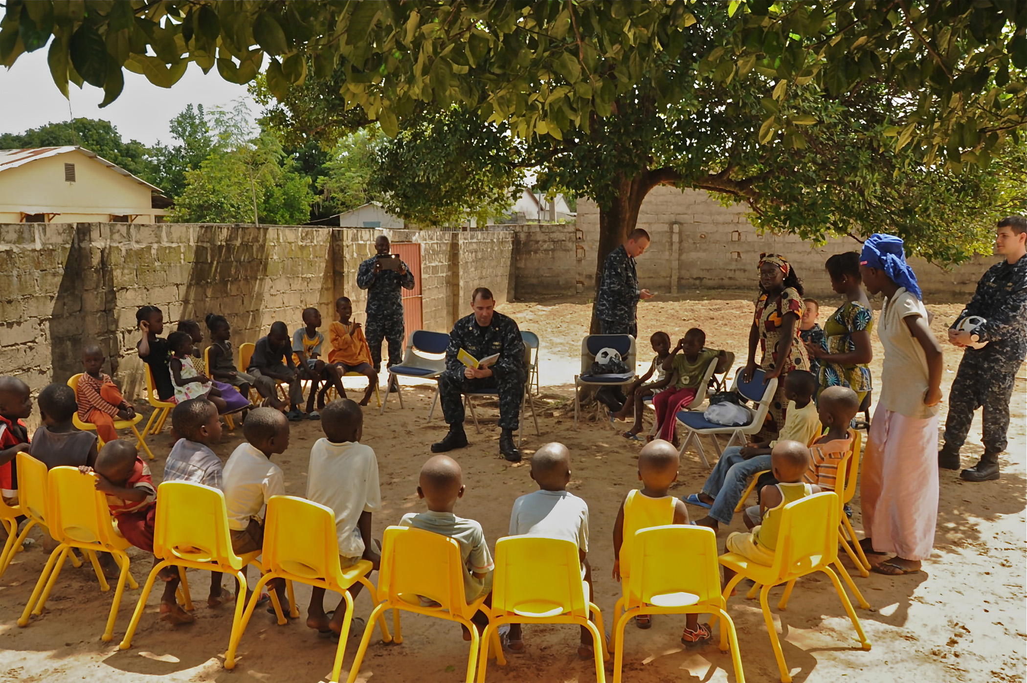 BANJUL, The Gambia (Sept. 8, 2011) Lt. Cmdr. Charles Eaton, officer in charge of High Speed Vessel Swift (HSV 2), reads to children at the Starfish International School during Africa Partnership Station (APS) West. APS is an international security cooperation initiative aimed at improving maritime safety and security in Africa. (U.S. Navy photo by Seaman Jacob Lemke/Released)